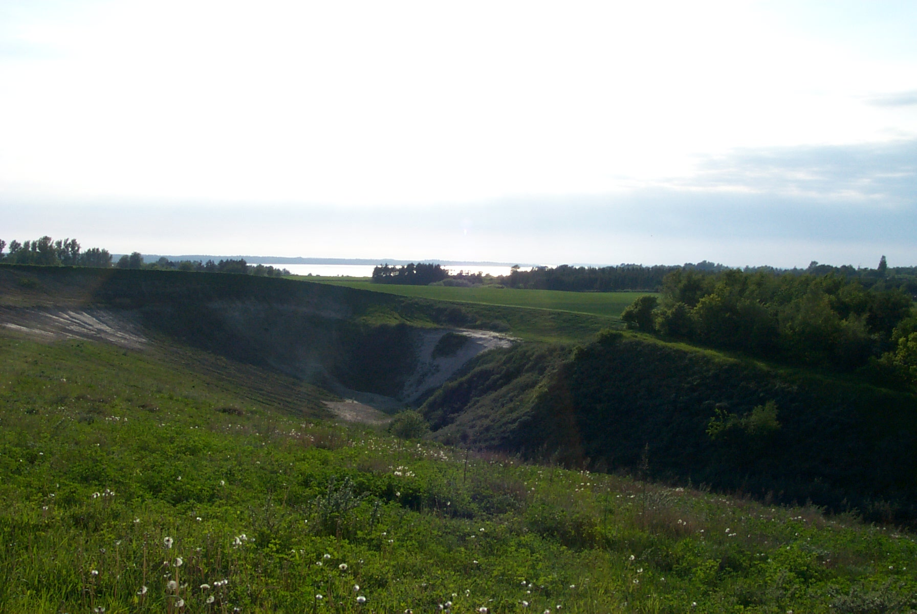 This is the gravel pit in Ølsted. It is not being used any more. In the background, you see Roskilde Fjord.